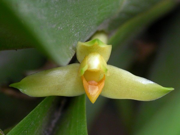 Heterotaxis crassifolia